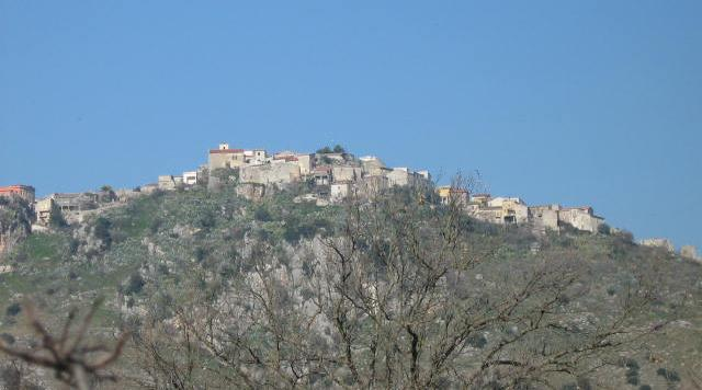 Panoramic view of Castelluccio Cosentino